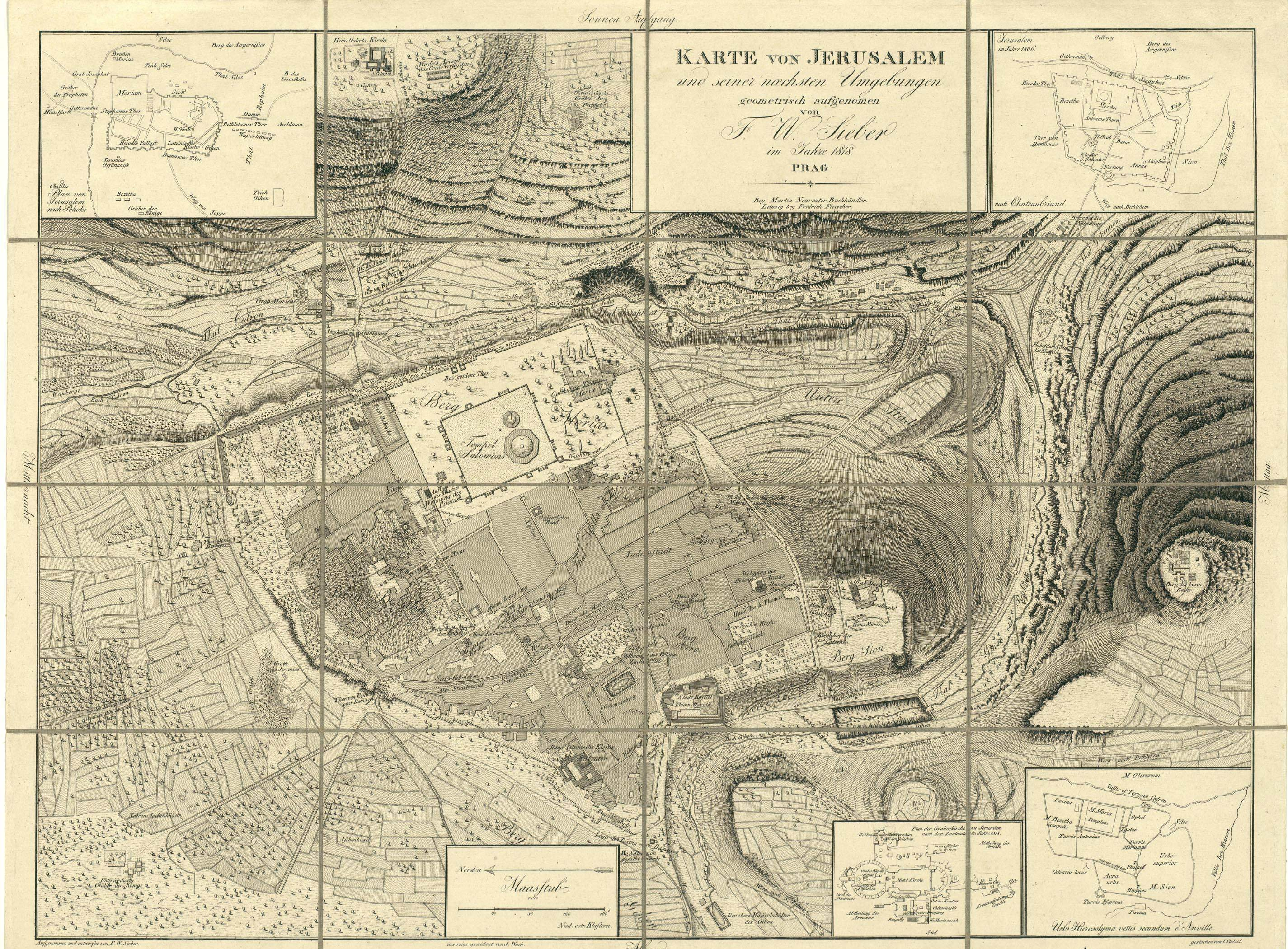 Sieber Map, 1818